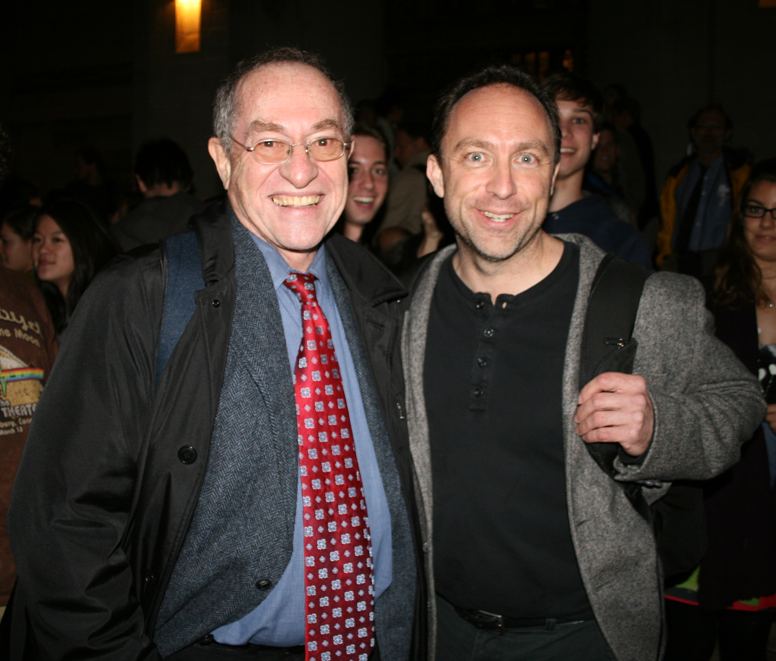 Alan Dershowitz and Jimmy Wales meet at Yale University as the audience for Wales' just-finished talk leaves and the crowd for Dershowitz's soon-to-begin talk gathers.